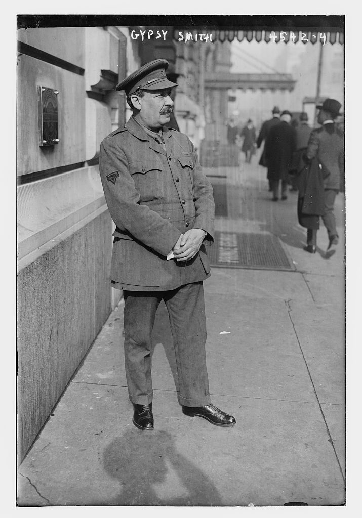 Gypsy Smith in Manhattan in 1918